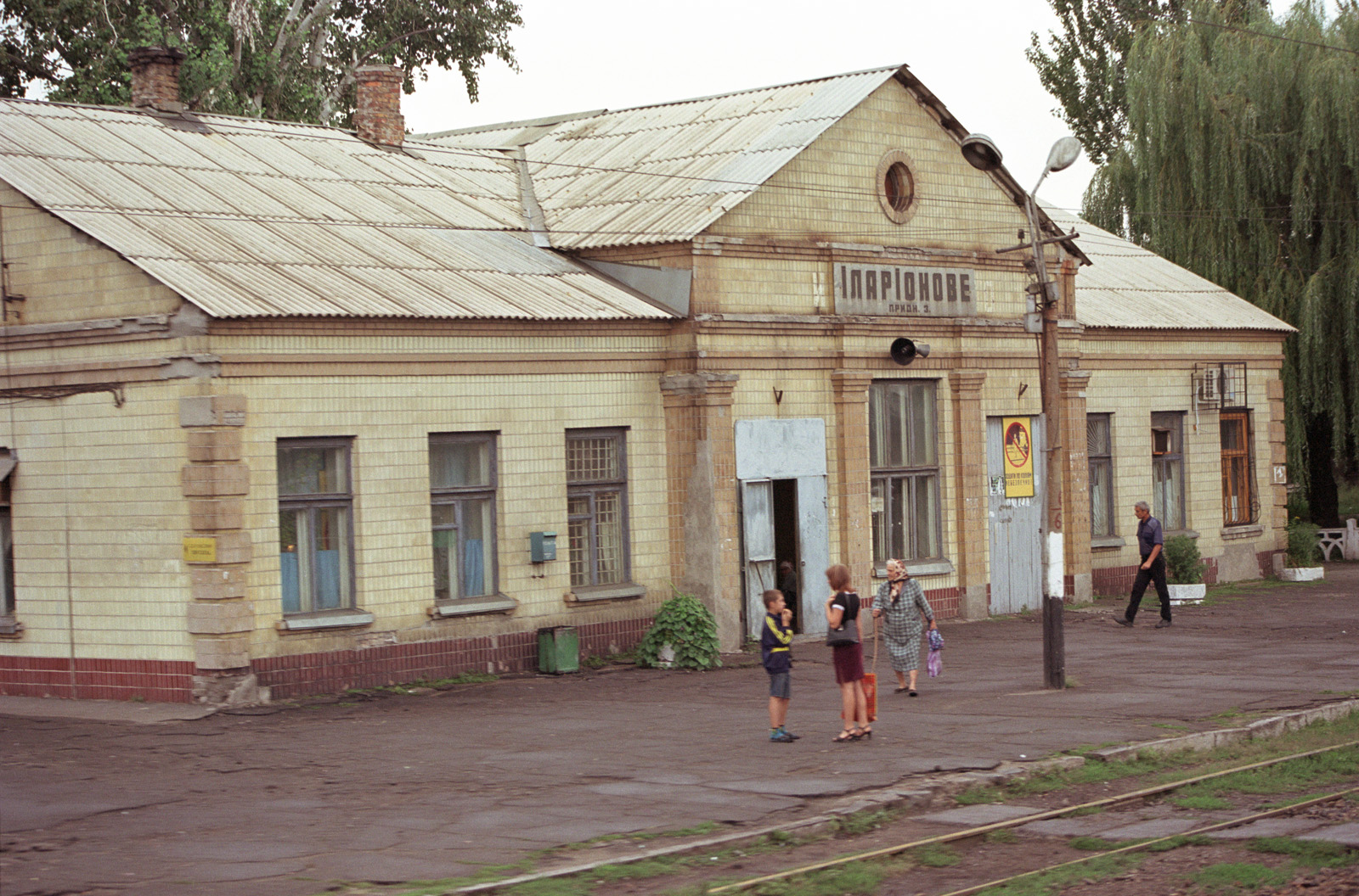 Ilarinove railway station, Ukraine